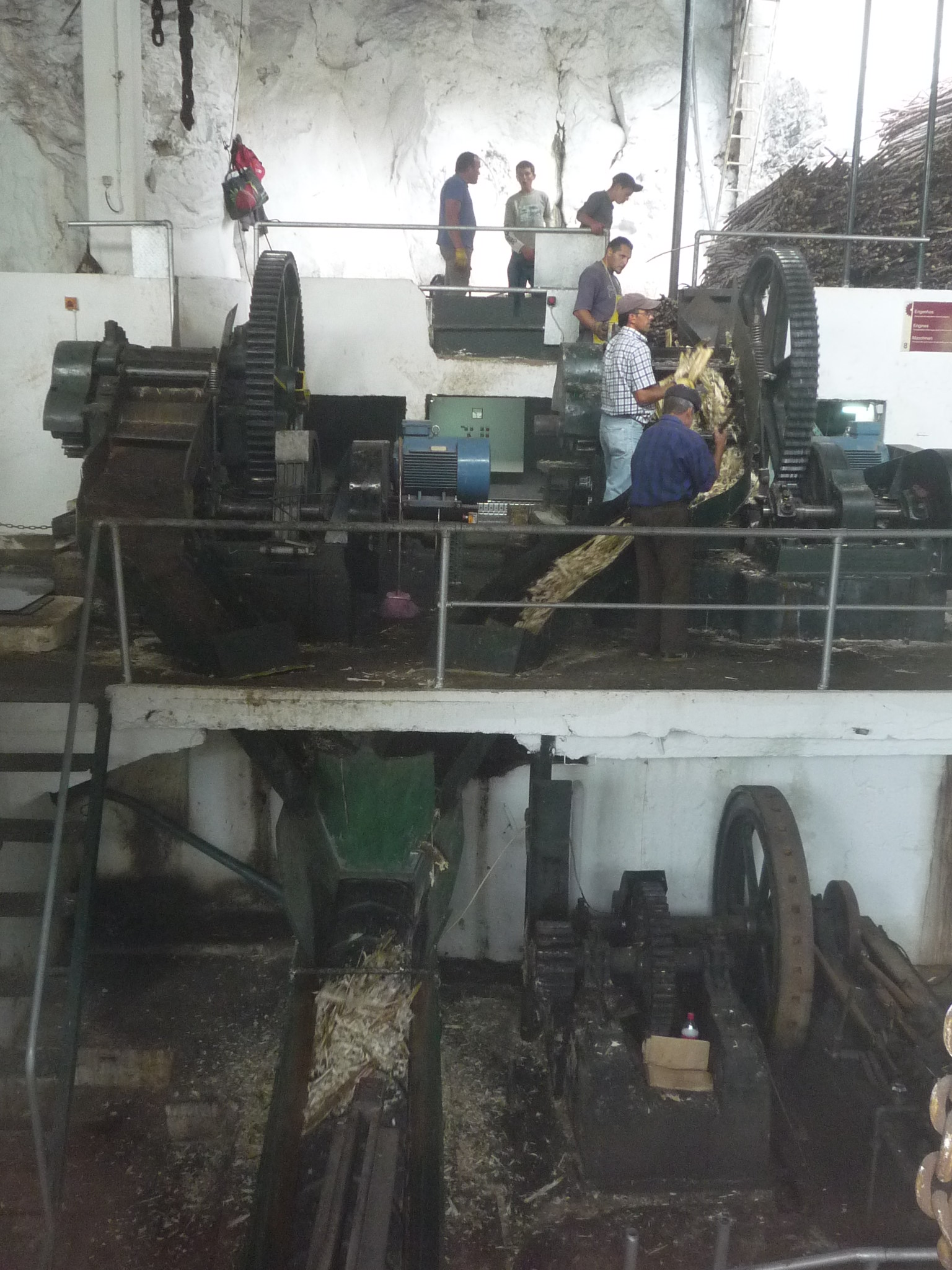 Interior of Engenho da Calheta, the sugar cane processing factory in Calheta parish, Madeira. In the upper half of the picture are two mills for crushing the cane. The waste or bagasse falls down a chute and is removed by a conveyor belt below. This page claims that the machinery is 200 years old and runs on steam. But it is clear in this picture that the mills are electrically powered. But the site is certainly antiquated. The public are allowed to walk about it fairly freely. There is unprotected moving machinery and unprotected hot vessels. According to the bagasse article, the workers should be wearing face masks. A British health and safety inspector would take one look and shut the factory down instantly. Surely Portuguese regulations are equally stringent?